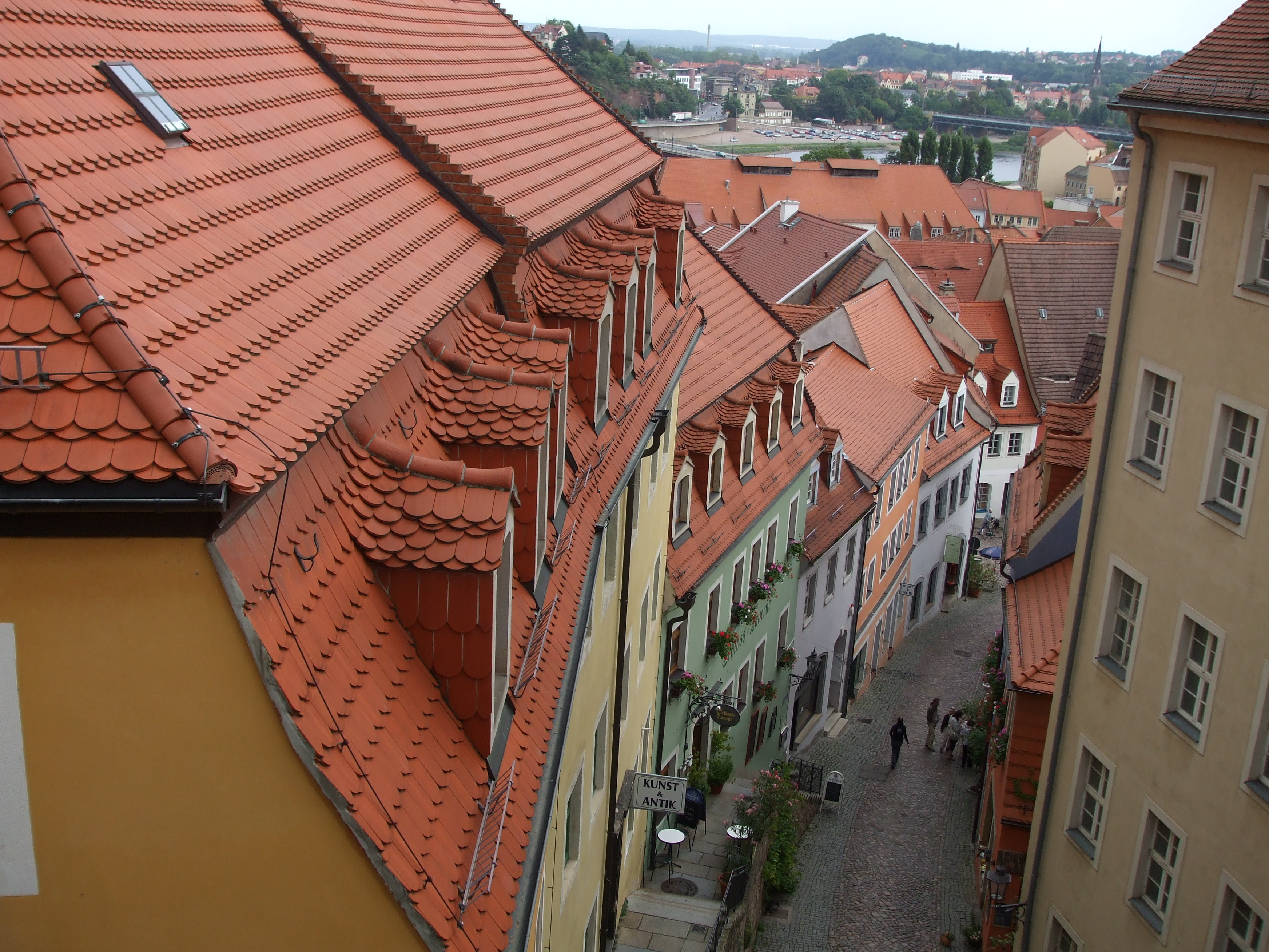 view on Meißen